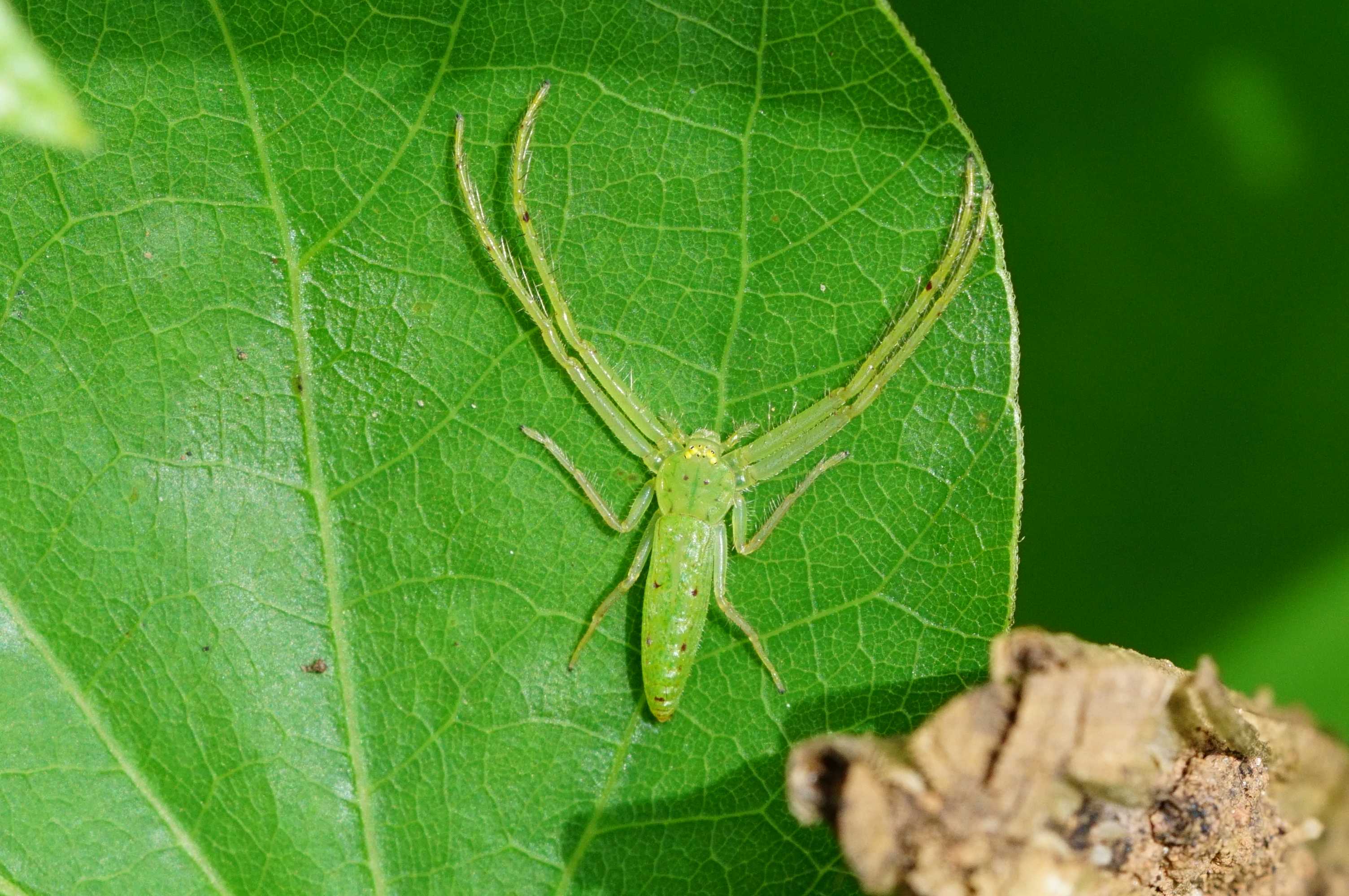 Oxytate virens